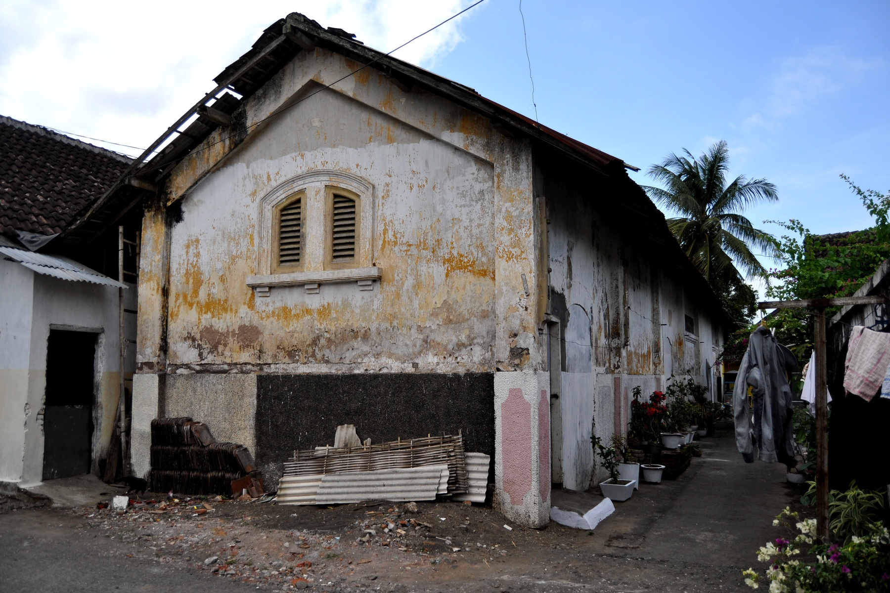 Ex Pasirian train station, closed since 1988, in Lumajang, East Java, Indonesia. Ex main building.